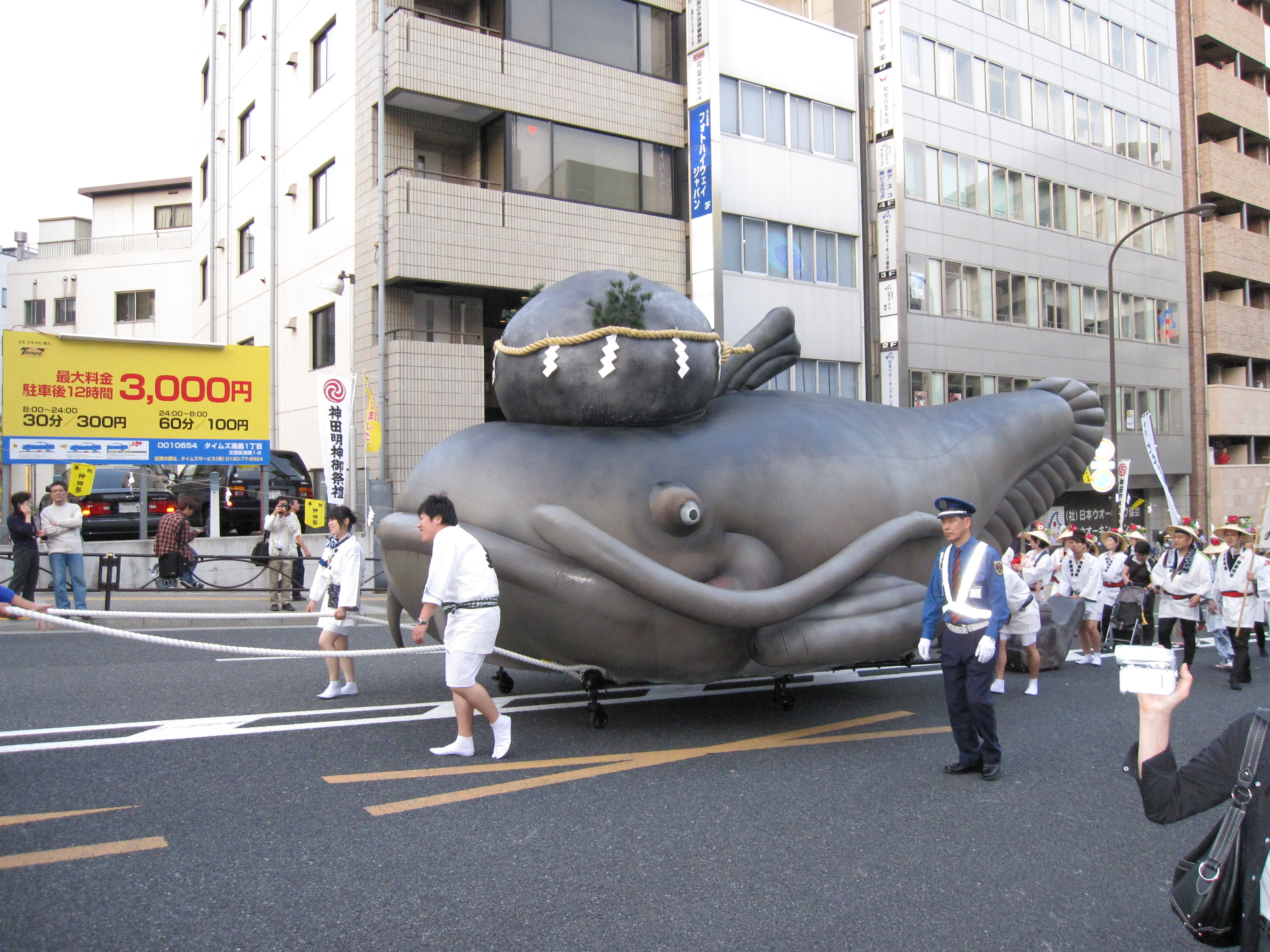 2009 Kanda Matsuri in Tokyo